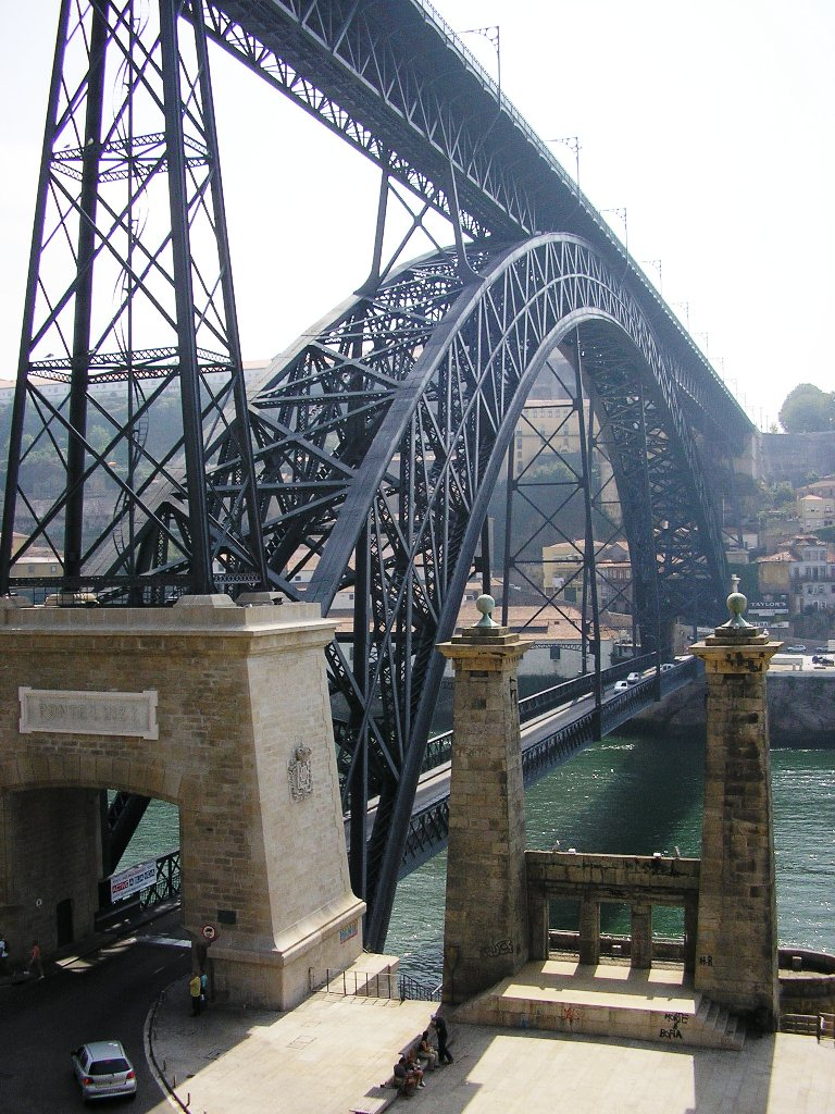 "Luís I" and "Pênsil" (just the two columns remaining) bridges, side by side, in Porto, Portugal.